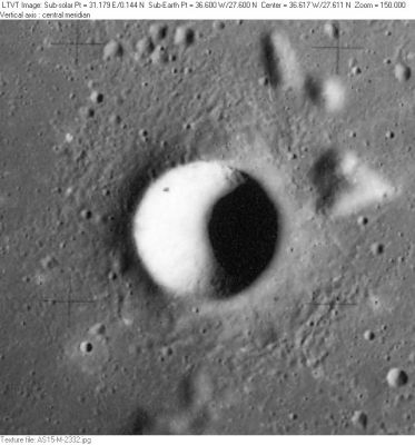 Apollo-15 shot of the Artsimovich crater